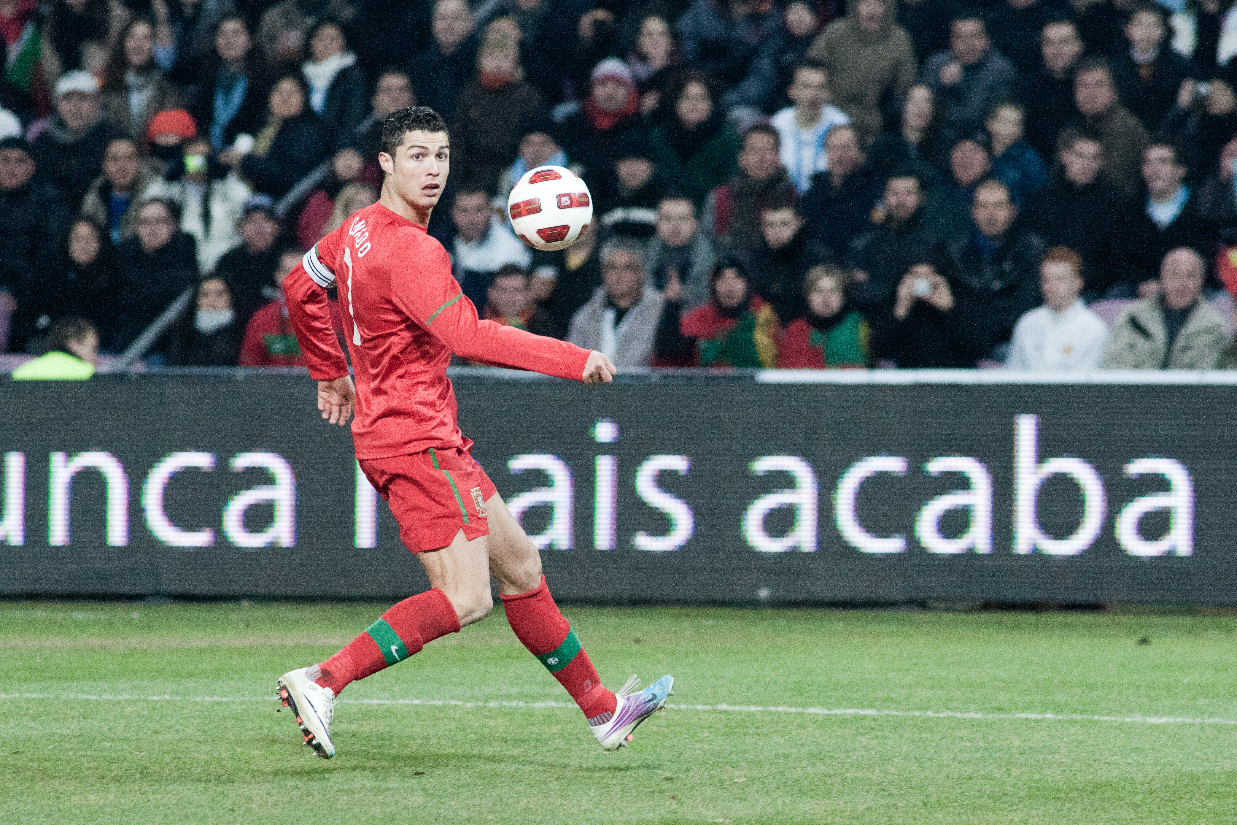 The making of this document was supported by Wikimedia CH. (Submit your project!) For all the files concerned, please see the category Supported by Wikimedia CH. Portugal vs. Argentina, 9th February 2011